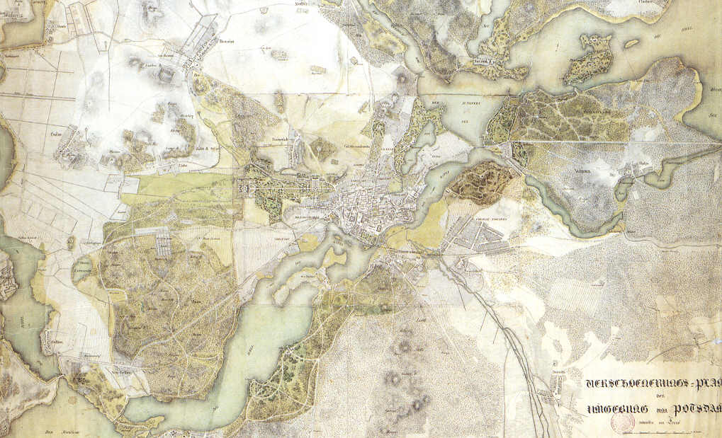 landscape plan of potsdam 1833 by Peter Joseph Lenné, lithography by Gerhard Koeber